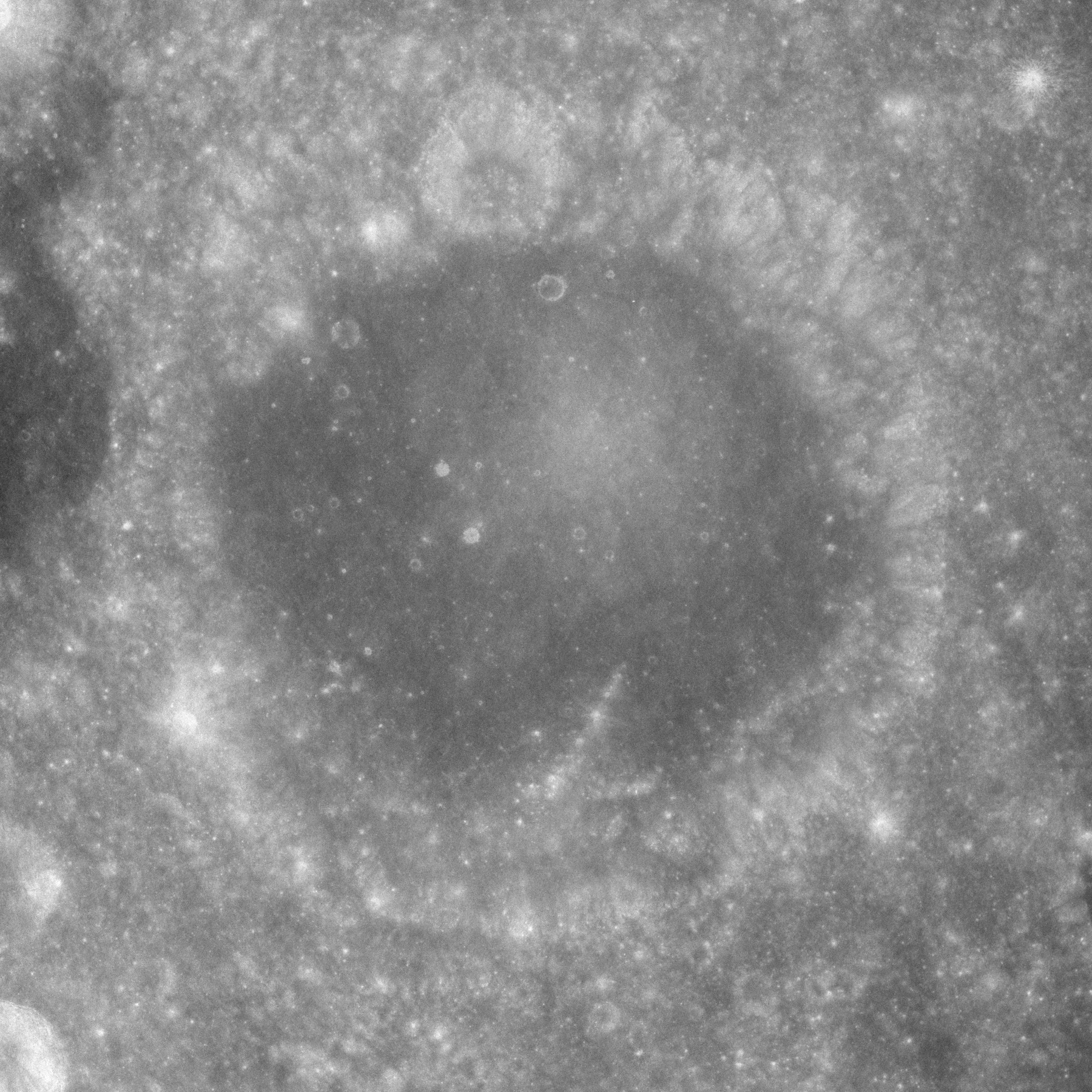 Firmicus crater, on the moon. The bright area on the crater floor is caused by the opposition effect (Heiligenschein).